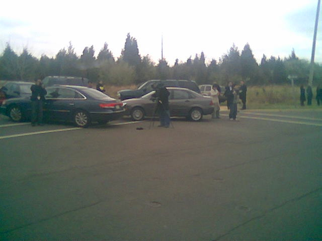 News media congregated outside the school grounds of Westfield High School following the report that the VA Tech Massacre shooter graduated from Westfield.